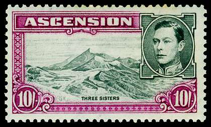 1944 stamp of Ascension.